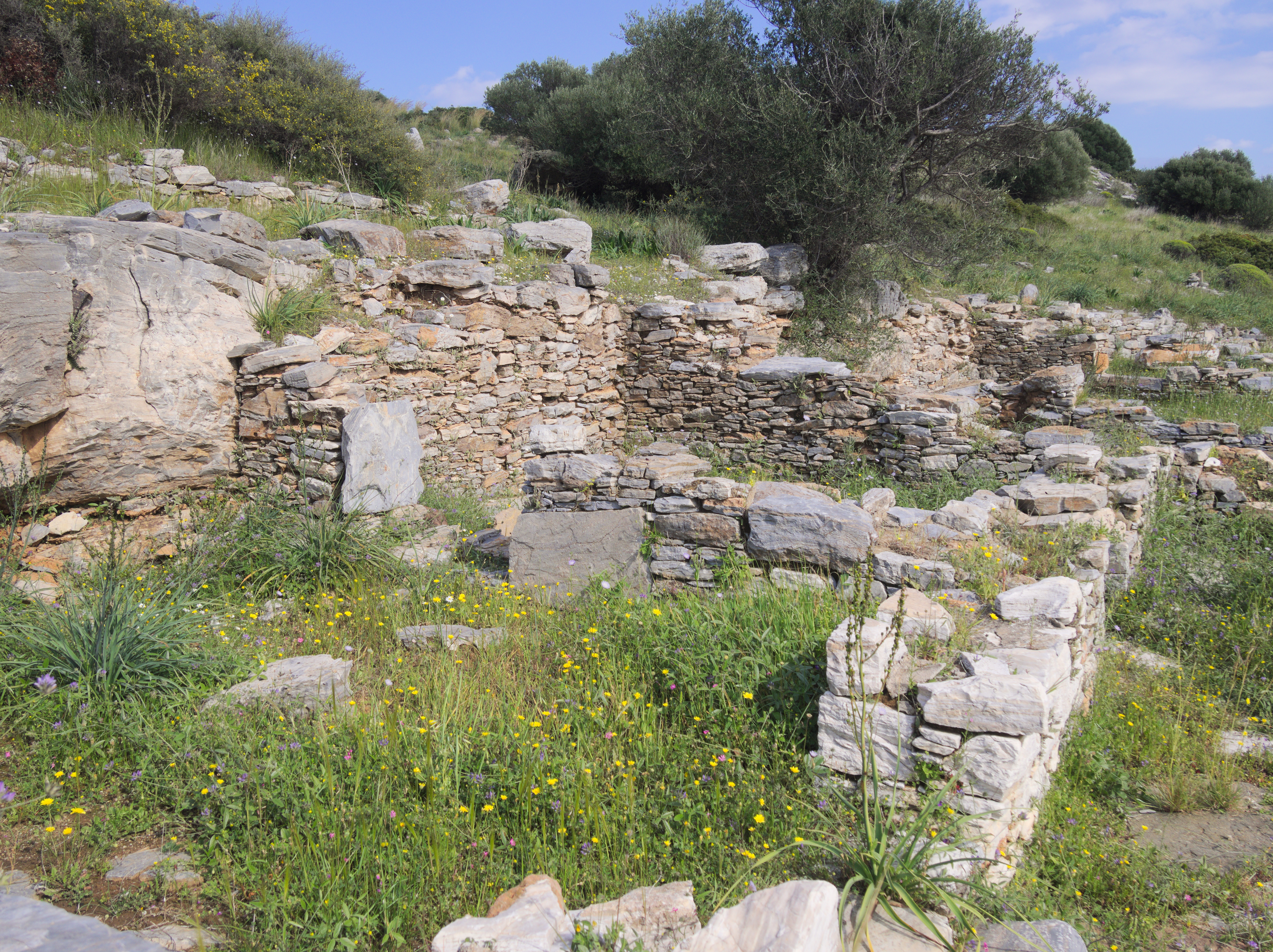 The settlement of Thorikos, dating from classic era.